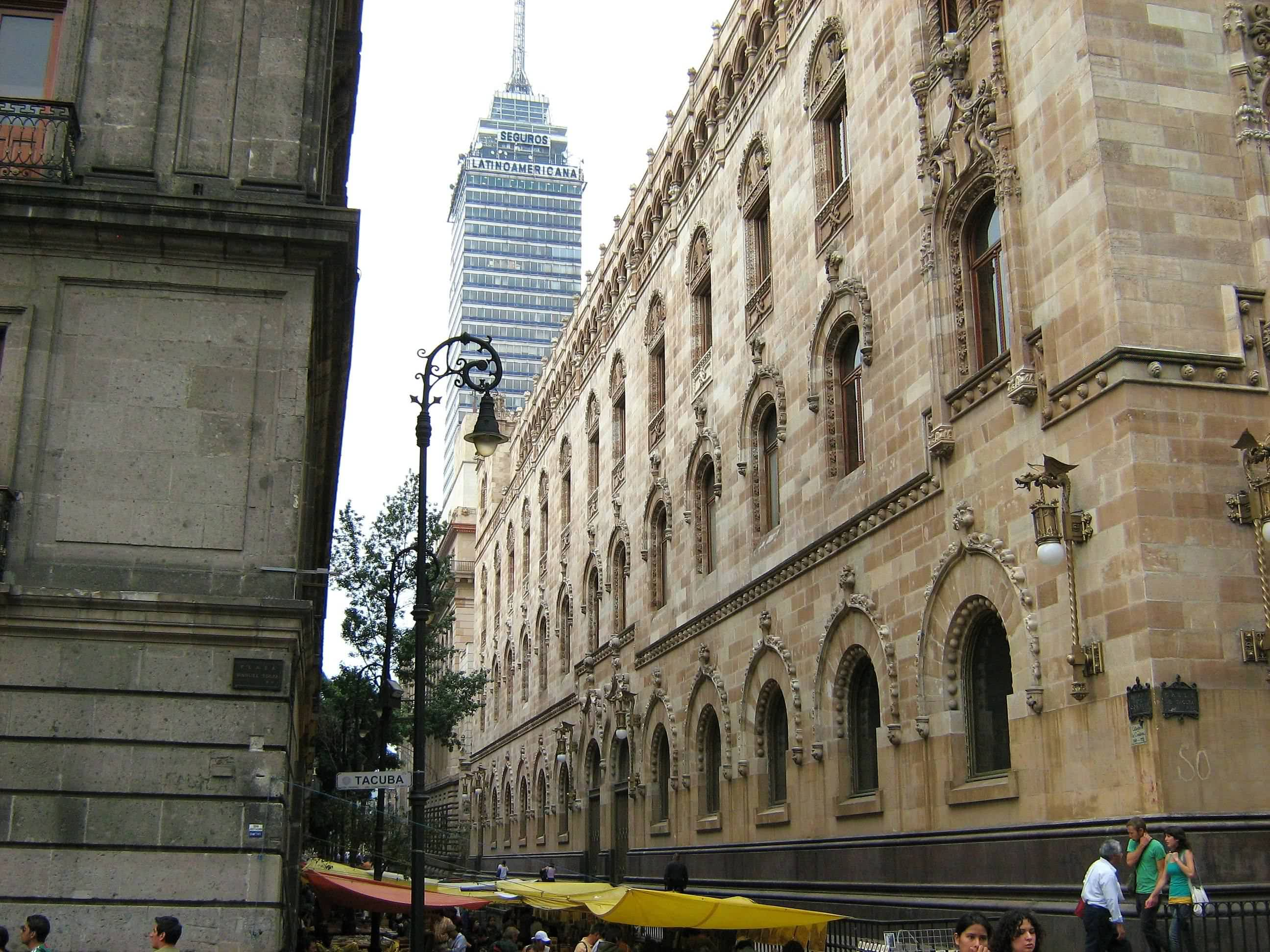 Mexico City. Architecture centuries XIX and XX. Post office and Seguros Latinoamericans (insurance company) tower.